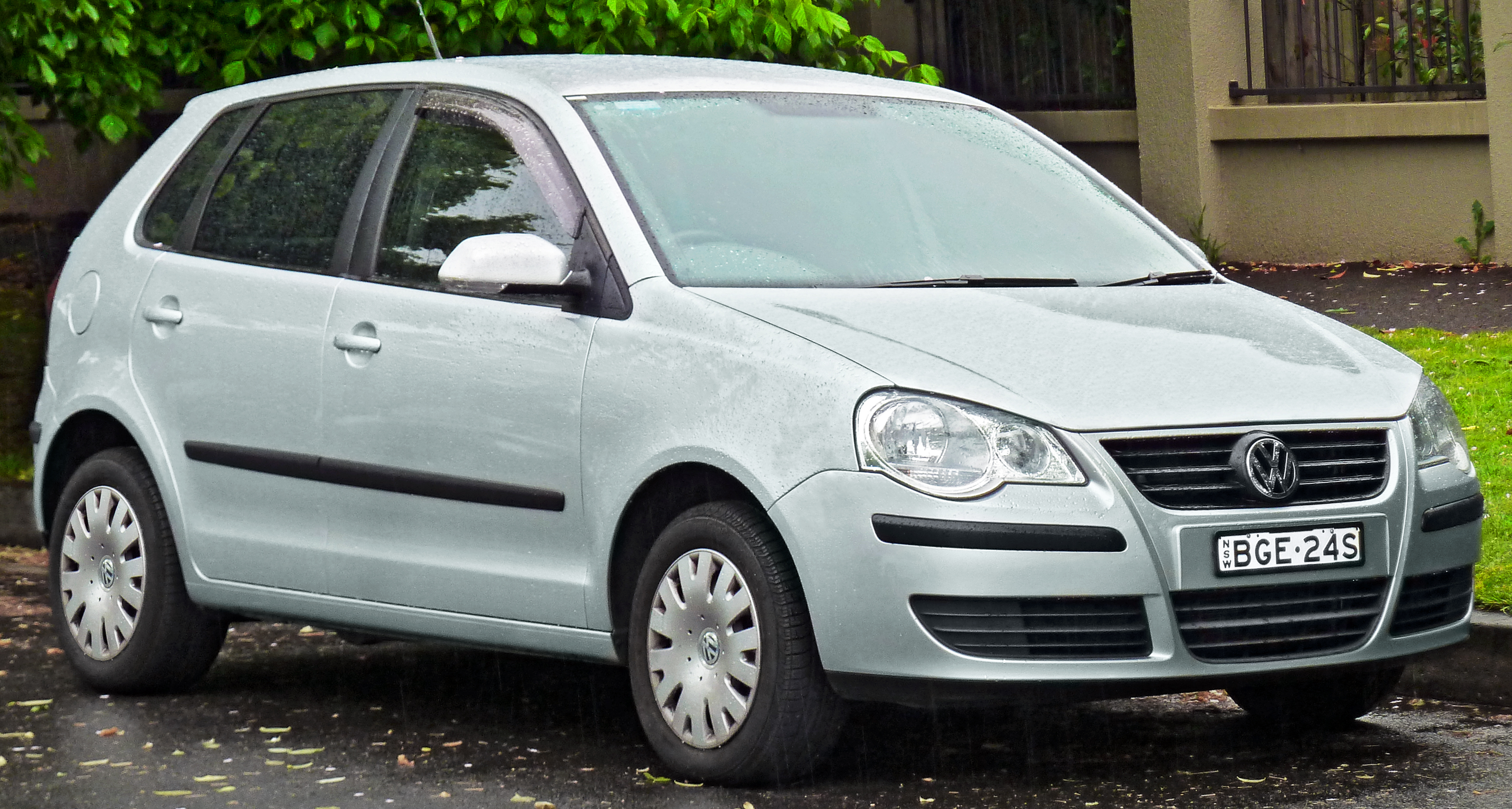 2005–2008 Volkswagen Polo (9N3) Match 5-door hatchback. Photographed in Roseville, New South Wales, Australia.